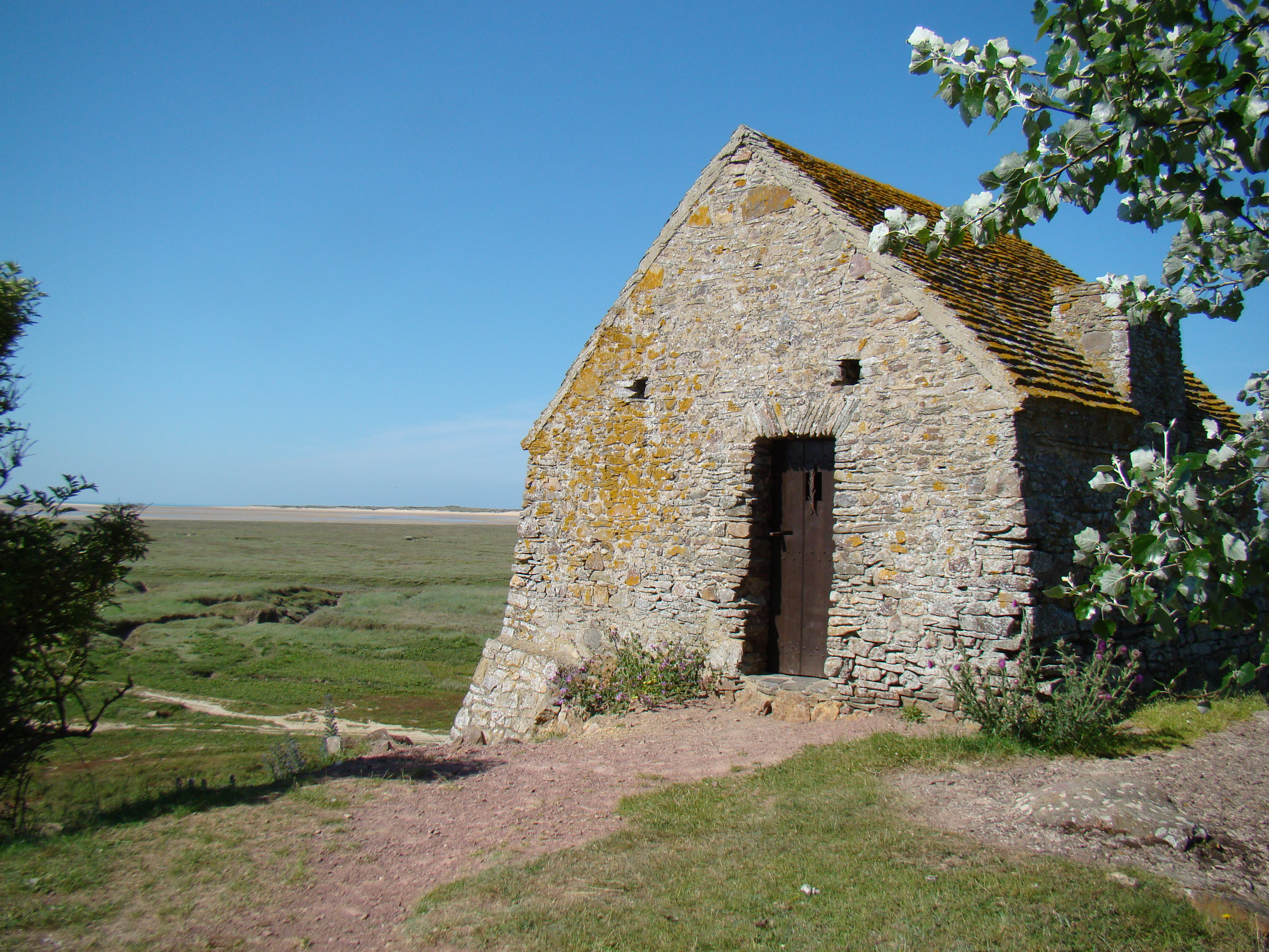 military in saint germain sur ay